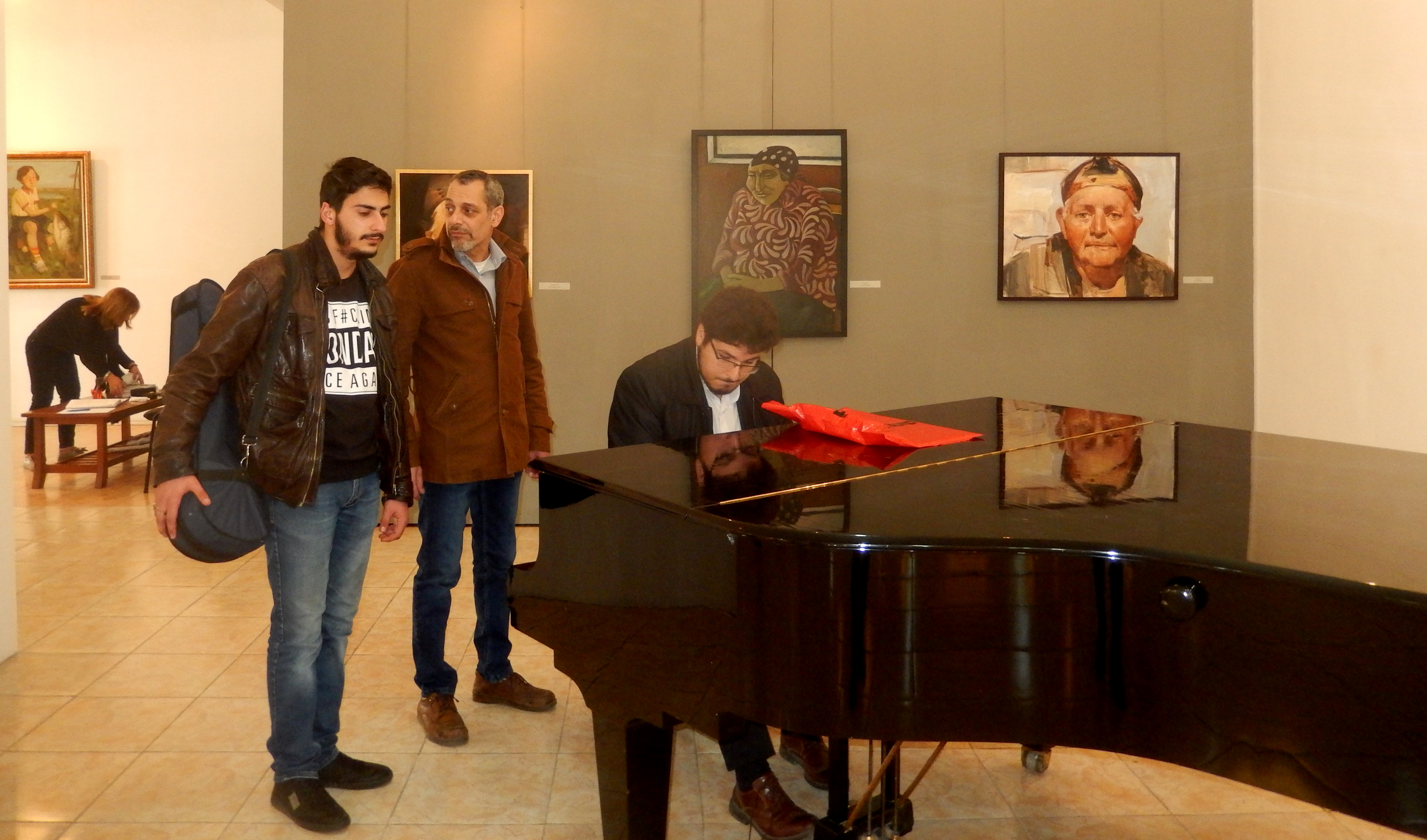 Paintings and graphic works of Tigran Asatryan at Yerevn Modern Art Museum